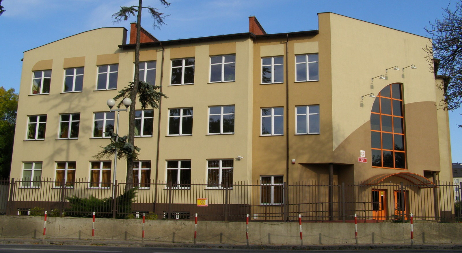 Gymnasium (middle school) of Janusz Kusociński in Mińsk Mazowiecki .